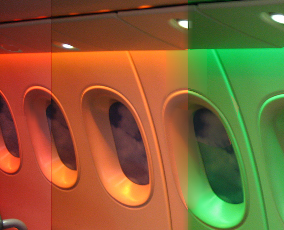 Contrast view showing examples of the hundreds of different LED light combinations offered on the 787